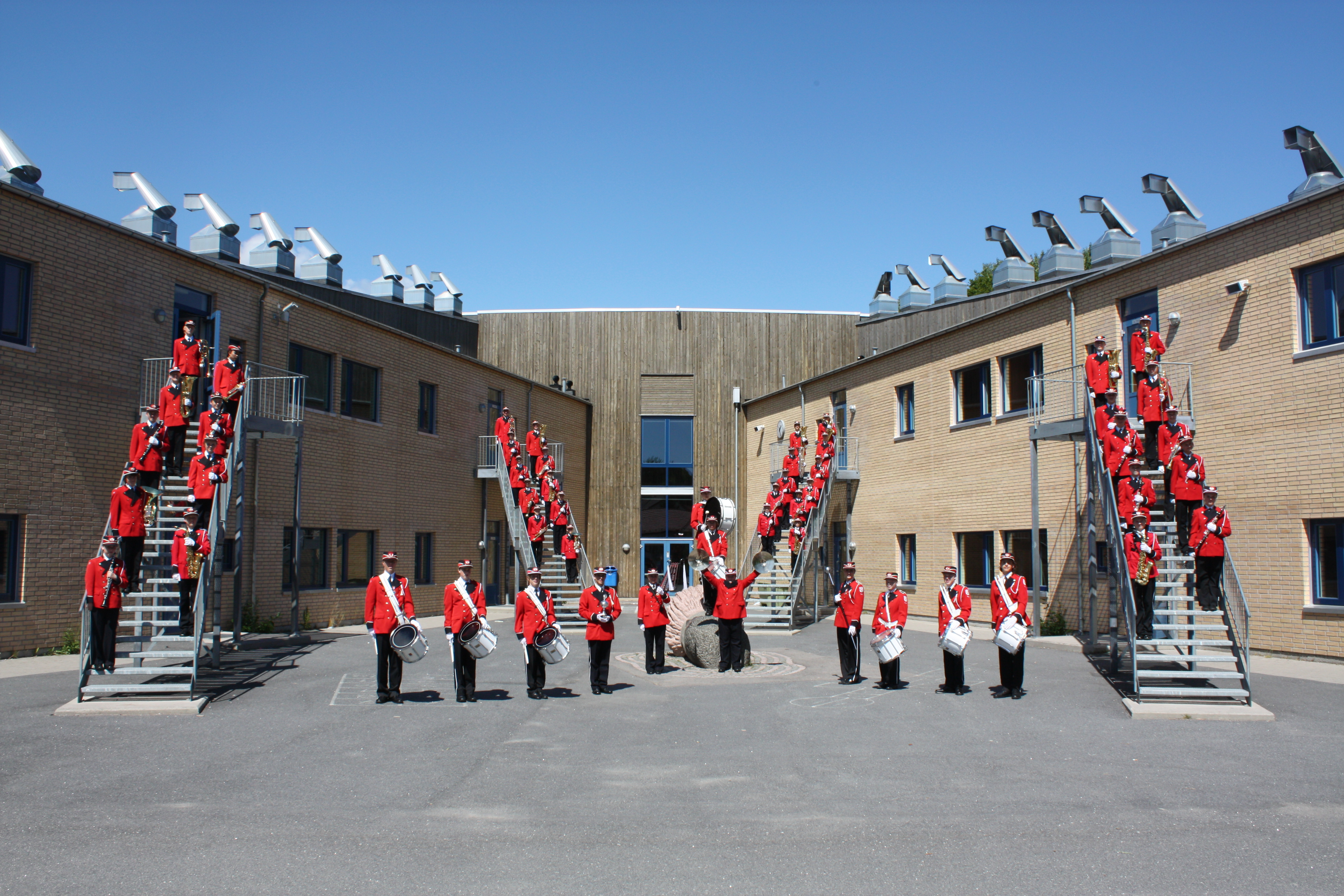 Nøtterøy Skolekorps Norgesmester i marsjering 2009